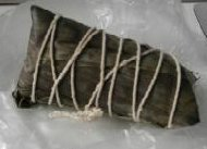 Rice Dumpling/ Zòngzi Wrapped This is the rice dumpling in the wrapped form. Picture taken January 10, 2003 by Allen Timothy Chang from enwiki. This is the rice dumpling in the wrapped form. Picture taken January 10, 2003 by Allen Timothy Chang